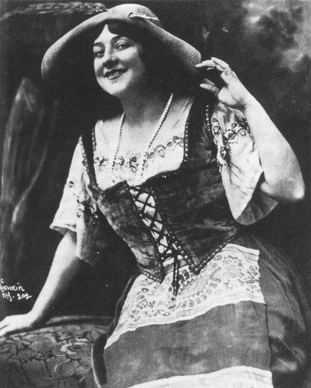 Anna Fitziu as Rosario in Goyescas by Enrique Granados, MET New York 1916